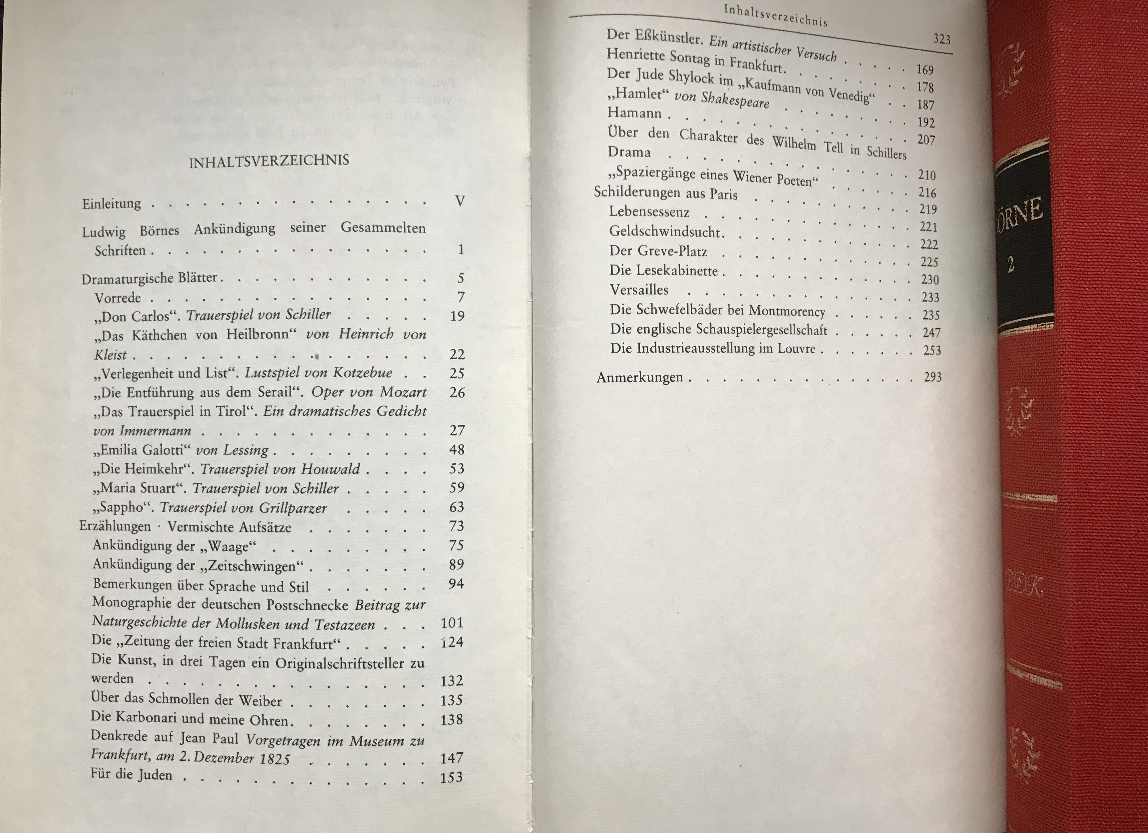 From volume 1 of Ludwig Börne's 2-volume edition as part of the large GDR series "Bibliothek deutscher Klassiker". (Contents)